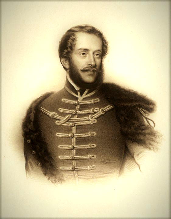 Lajos Kossuth